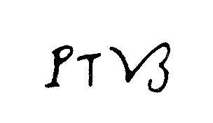 Scan aus Classified Signaturs of Artists